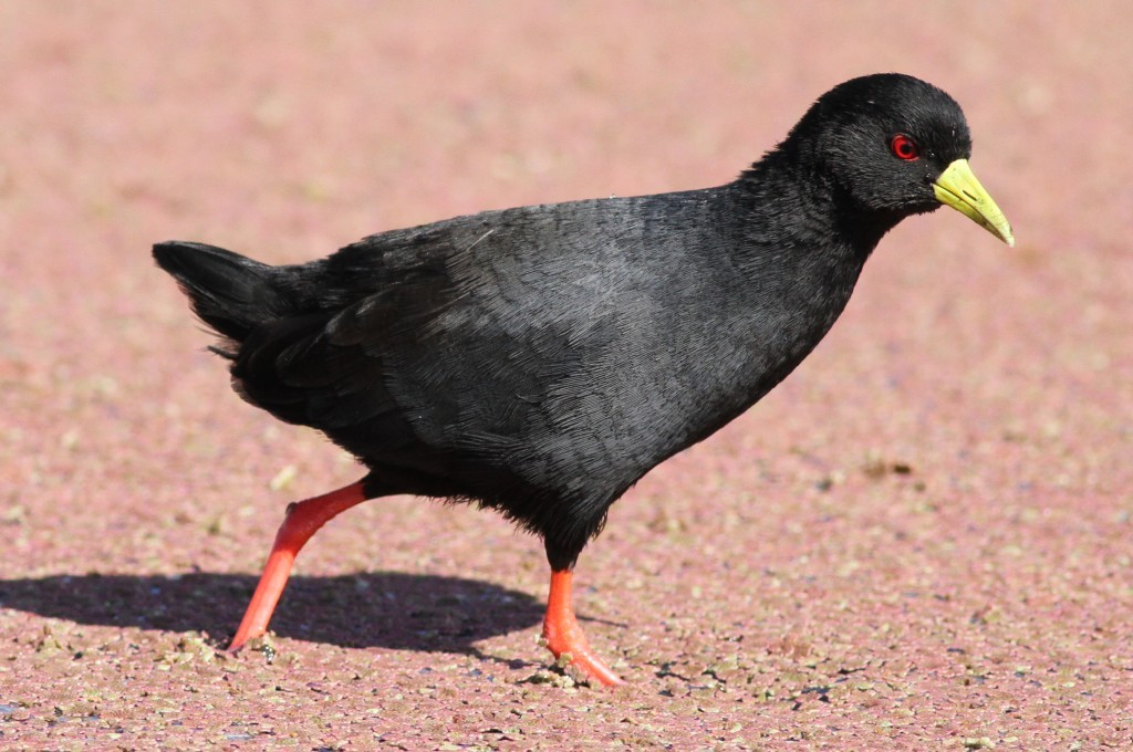 Black crake, Amaurornis flavirostra at Marievale Nature Reserve, Gauteng, South Africa